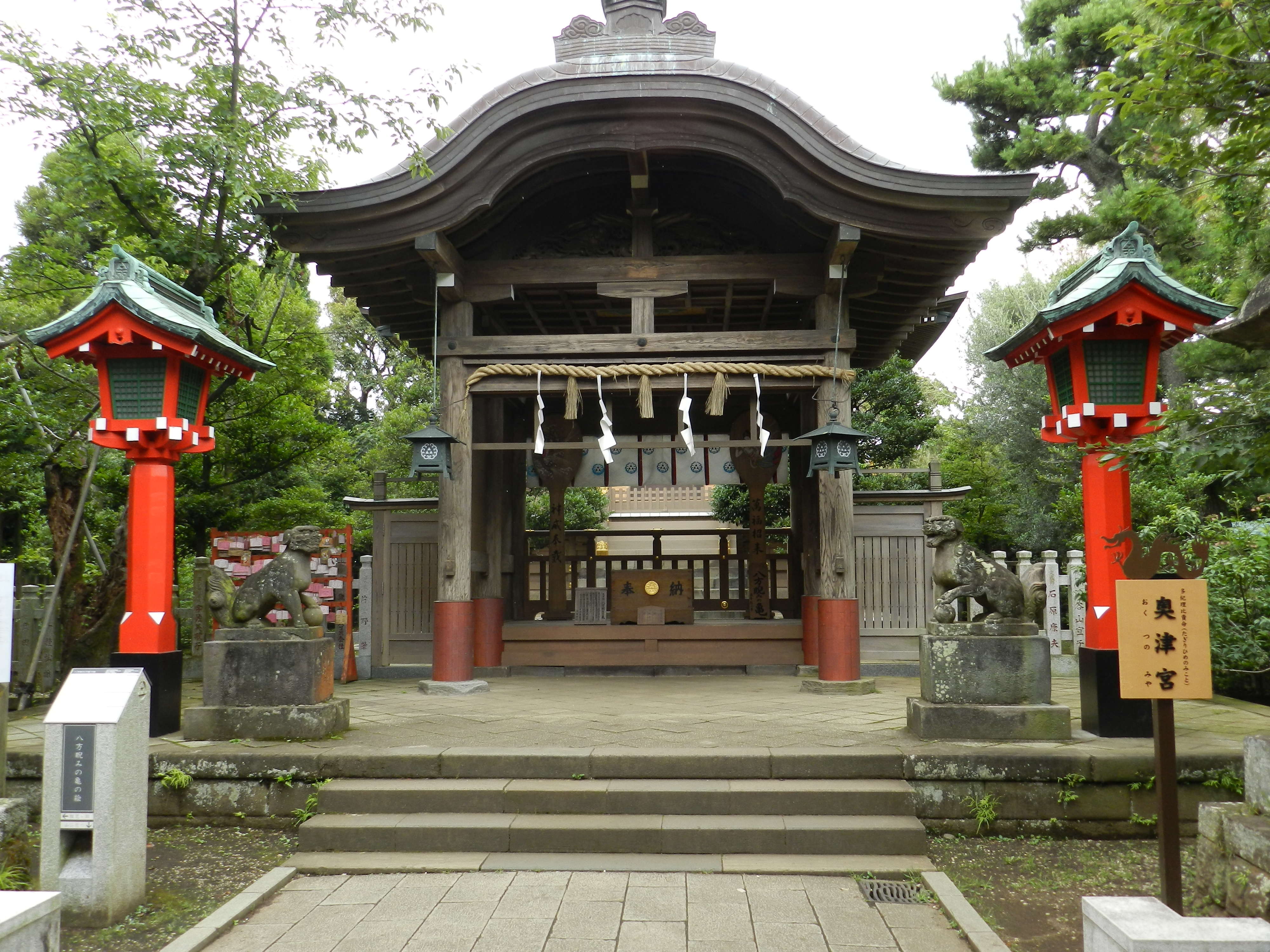 The Okutsunomiya Shrine of Enoshima, Prefecture Kanagawa, Japan